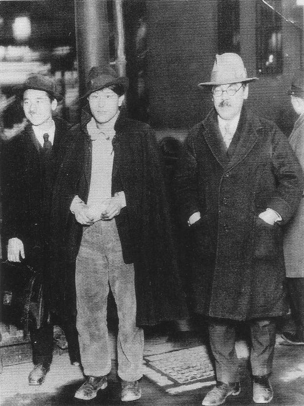 Kiyoshi Tanabe (In support of the labor movement, the man who climbed the chimney) and Ikuo Oyama (member of the banned Labour-Farmer Party).